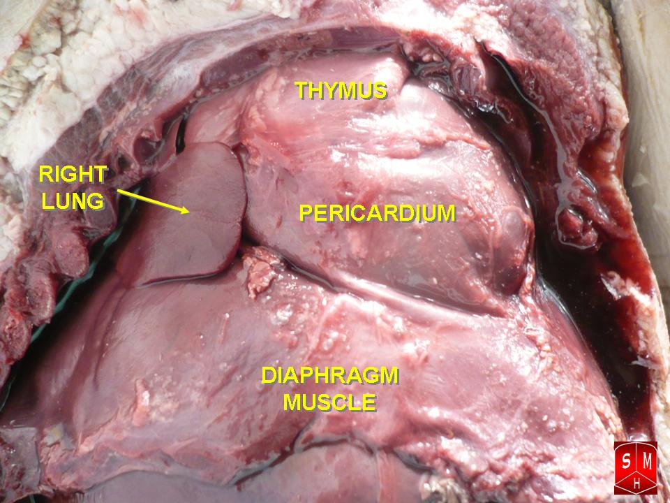 Dissection